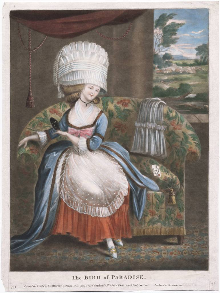 Gertrude Mahon actor and courtesan - the "Bird of Paradise" Guess 1970